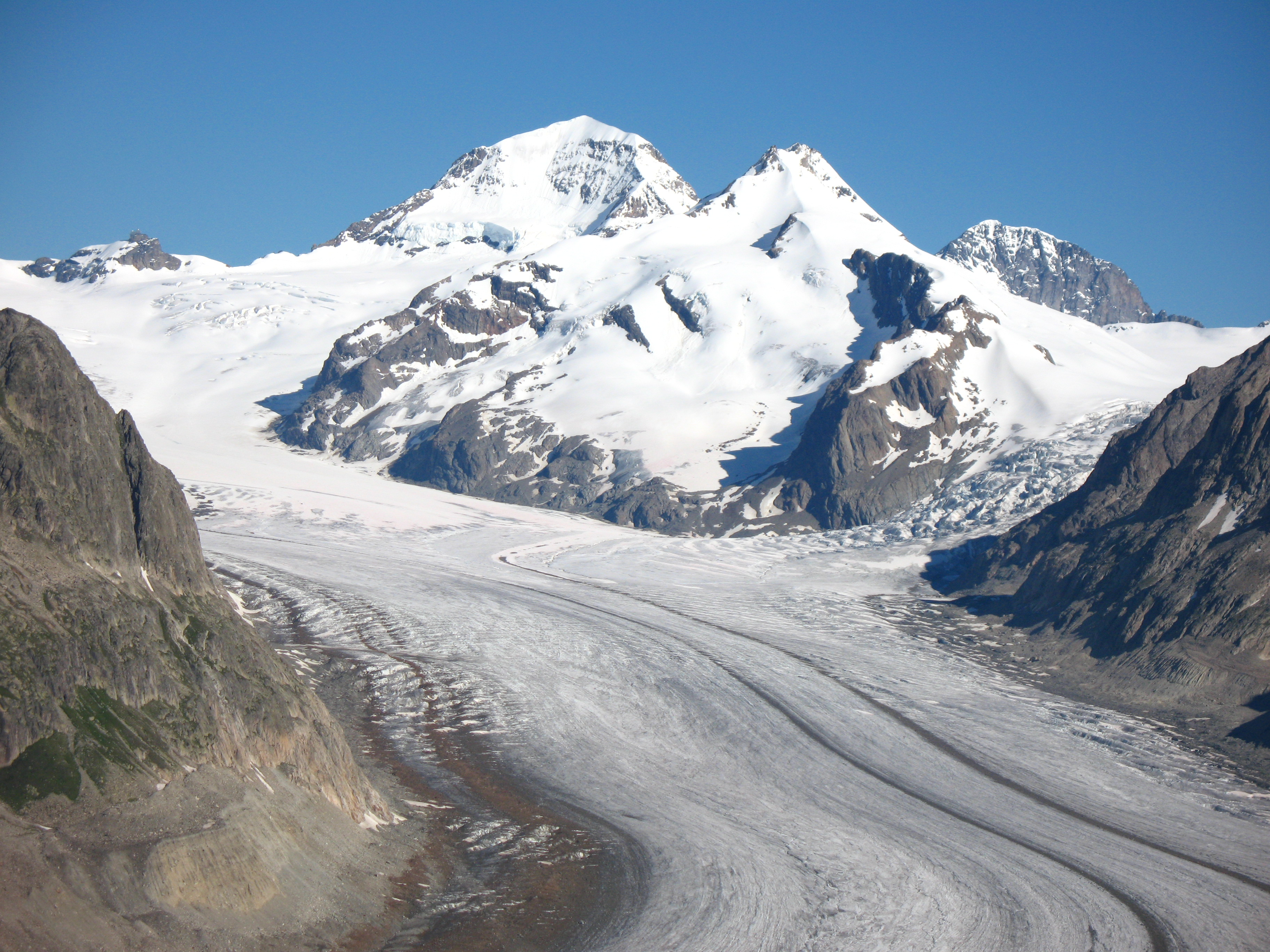 Aletsch Glacier and Mönch viewed from Eggishorn, Fiescheralp, Switzerland